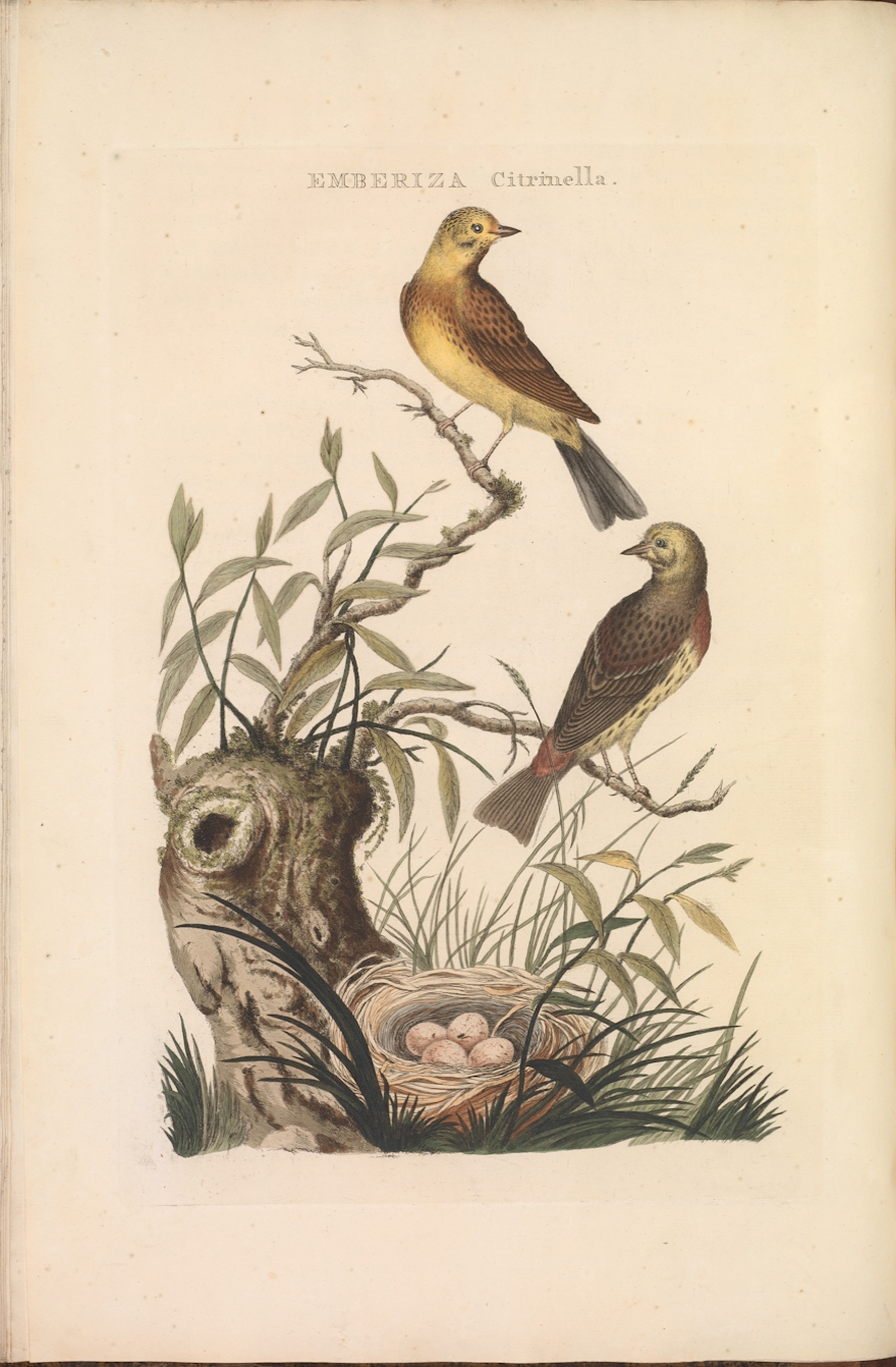 Plate 61 from the Nederlandsche vogelen by Nozeman and Sepp.